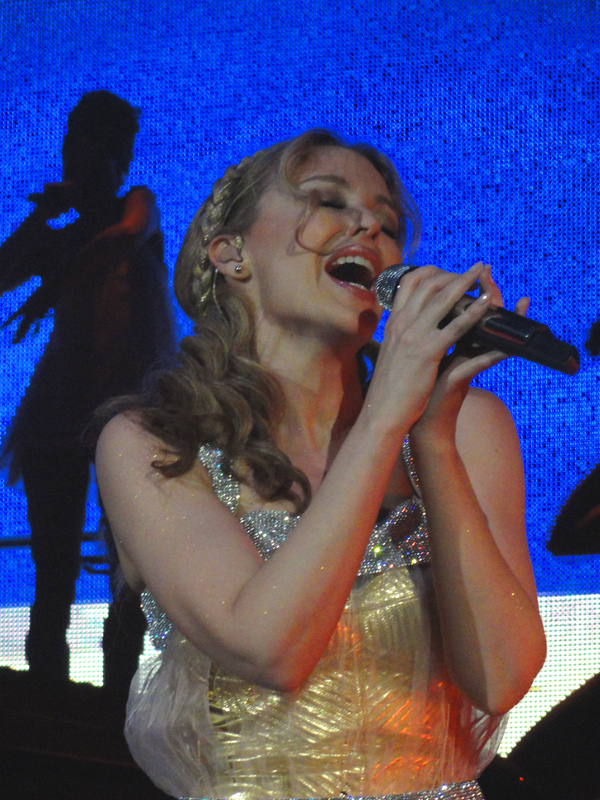 Kylie Minogue performing "I Believe In You" during the Aphrodite Les Folies world tour in San Francisco, 2011.